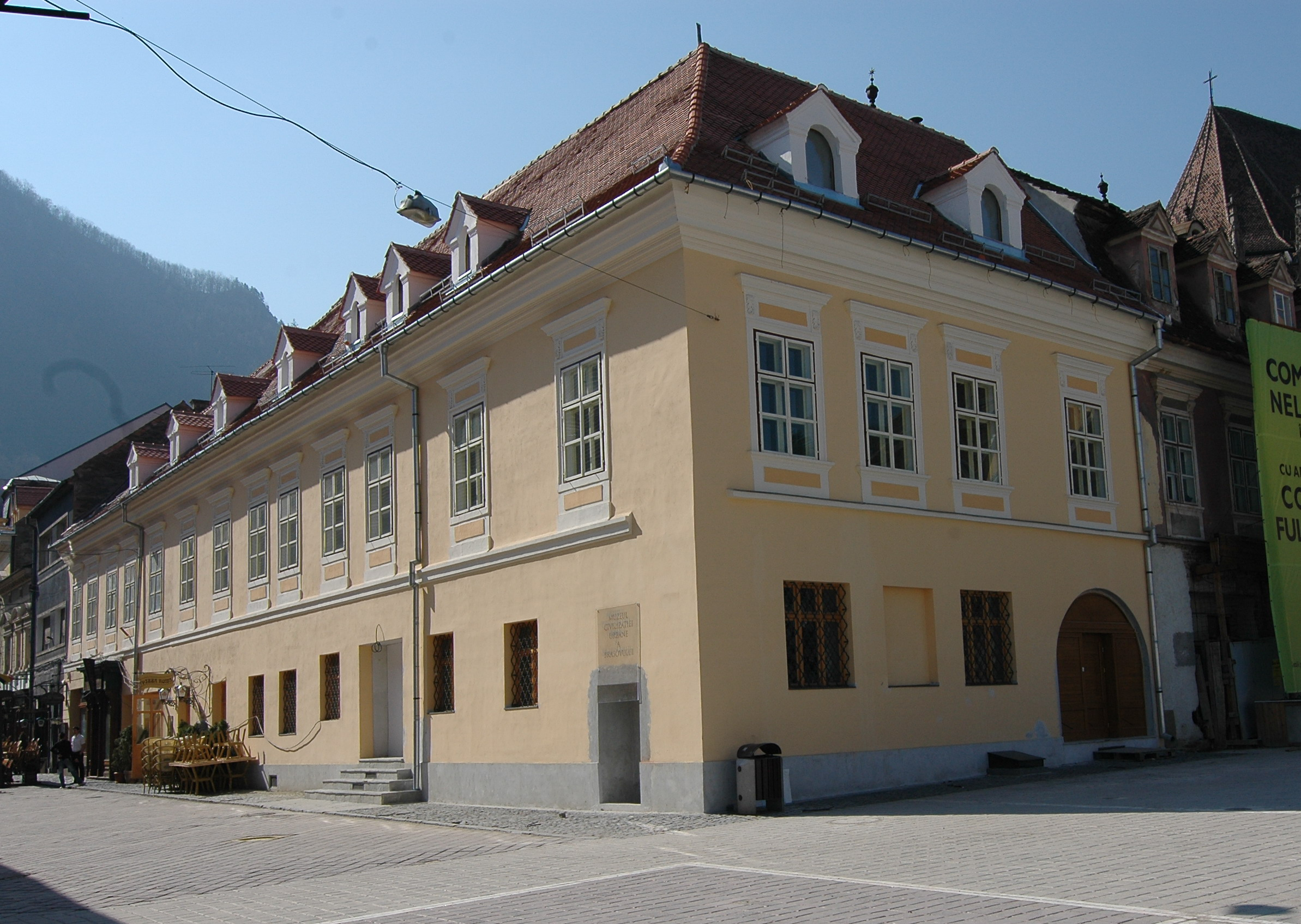 a photo of the building that hosts the museum of urban civilisation, brasov, romania, 2009